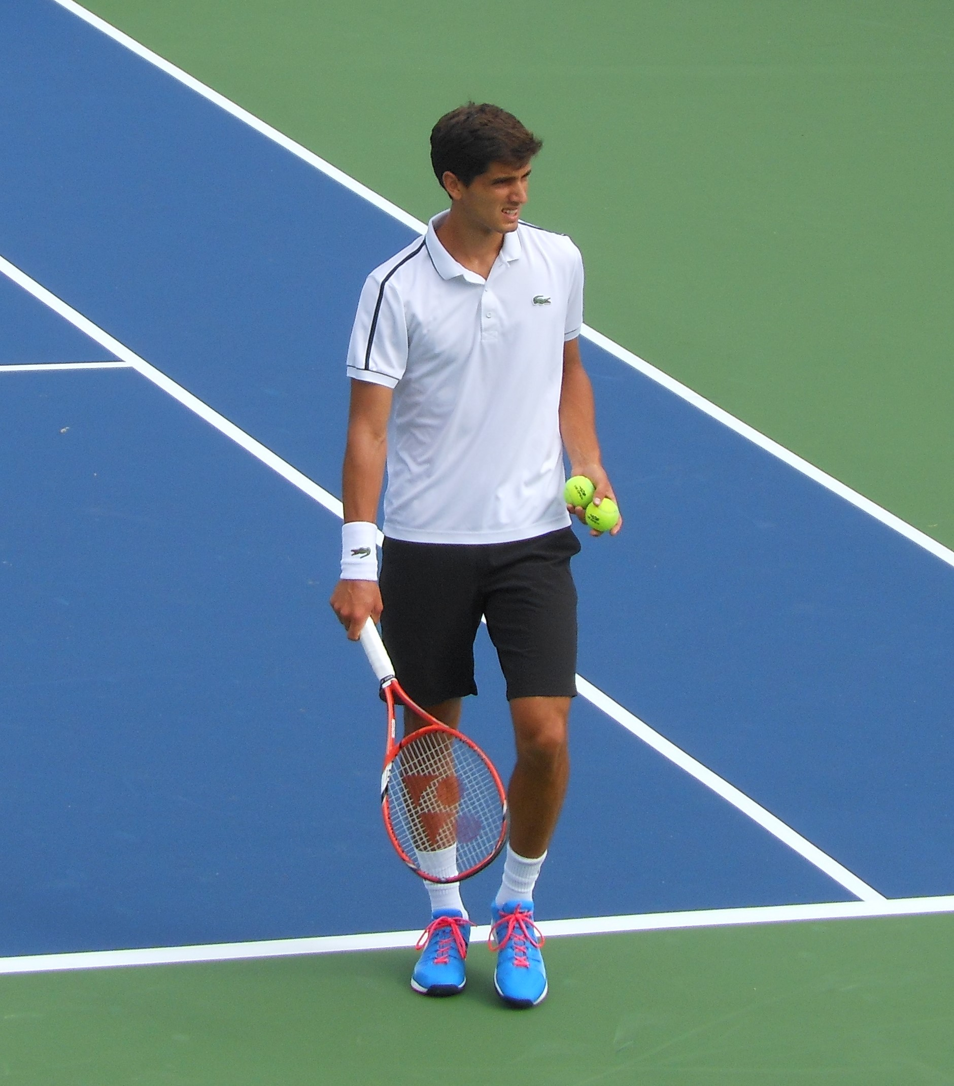 Pierre-Hugues Herbert at the 2015 Winston Salem Open in Winston-Salem, North Carolina, United States.